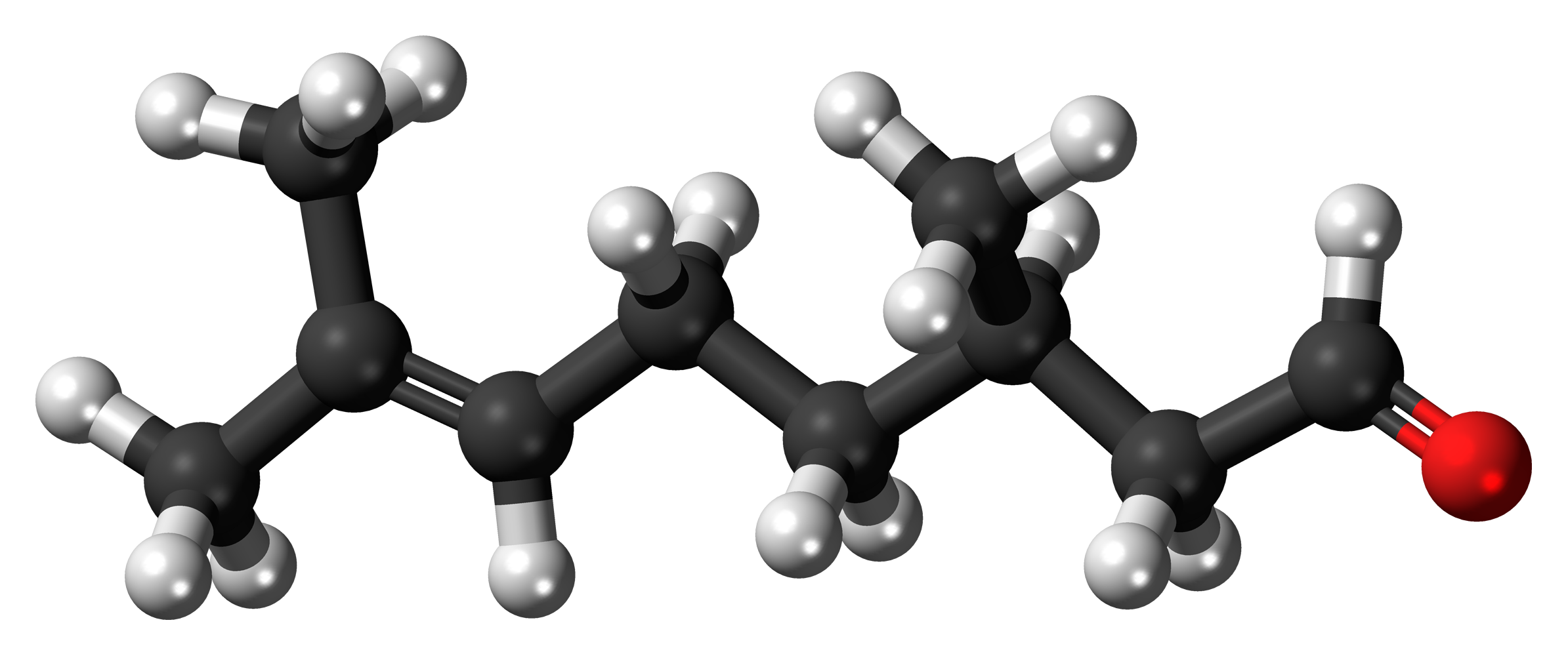 Ball-and-stick model of the citronellal molecule, a compound responsible for the distinctive scent of citronella oil. This image shows the (+) isomer. Colour code: Carbon, C: black Hydrogen, H: white Oxygen, O: red